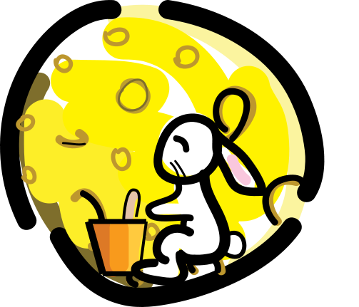 A rapresentation of the moon rabbit, from an asian mith